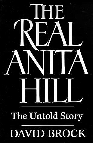 The cover of the 1993 book, The Real Anita Hill.